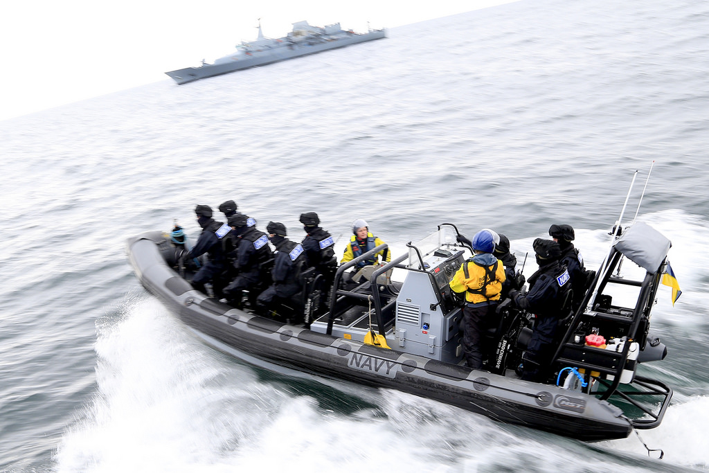 An Irish Navy armed boarding party underway.